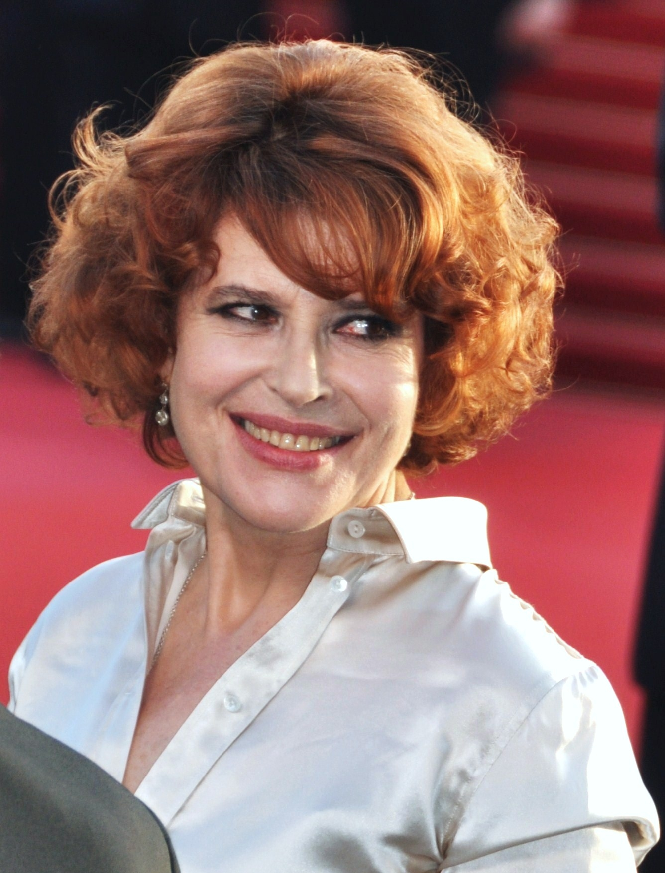 Fanny Ardant, French actress, at the 2009 Cannes Film Festival